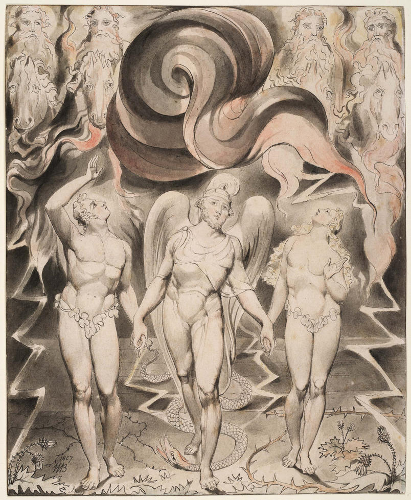 Watercolor Illustration to Milton's Paradise Lost by William Blake